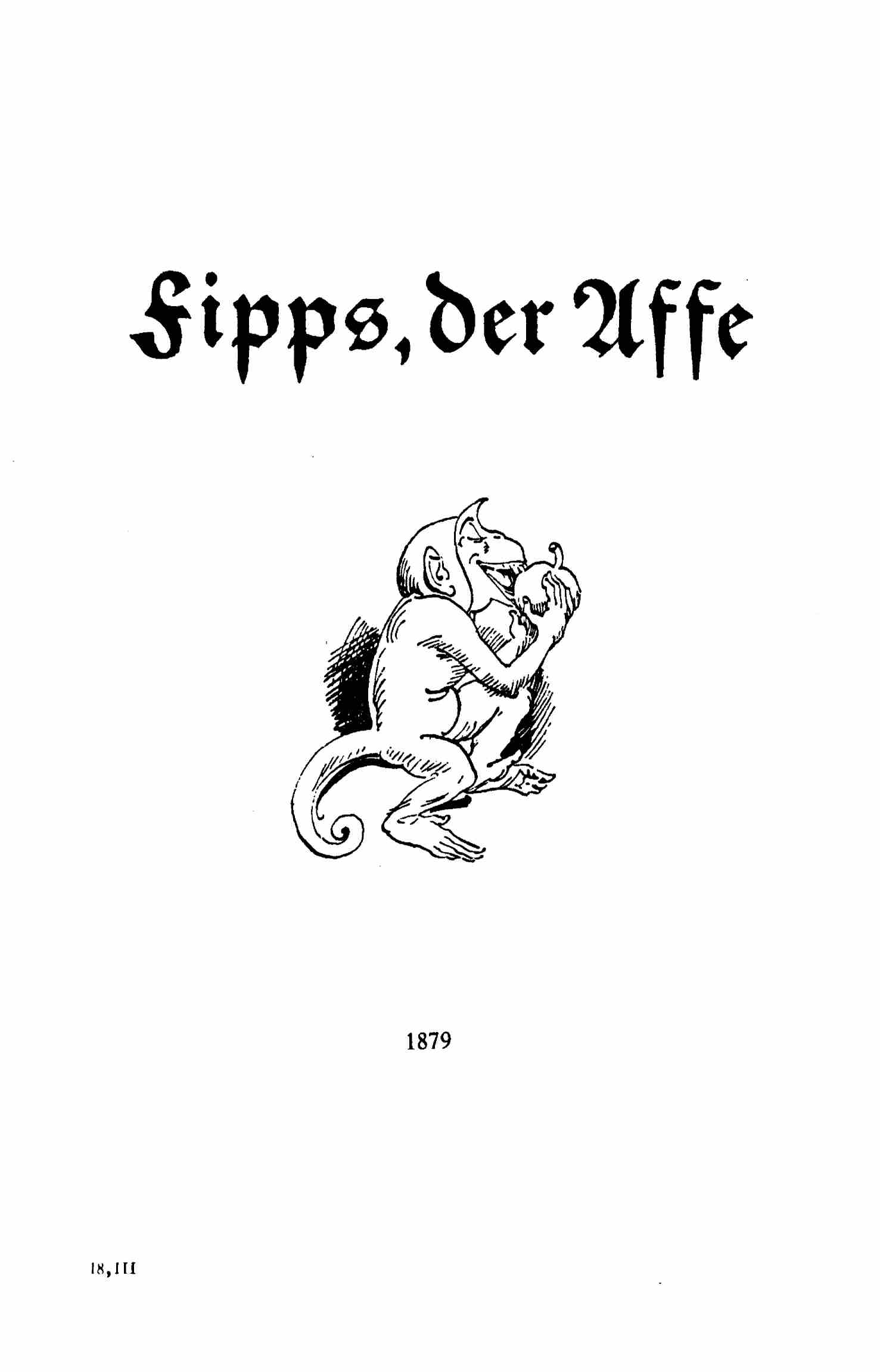 This is a scan of the historical document